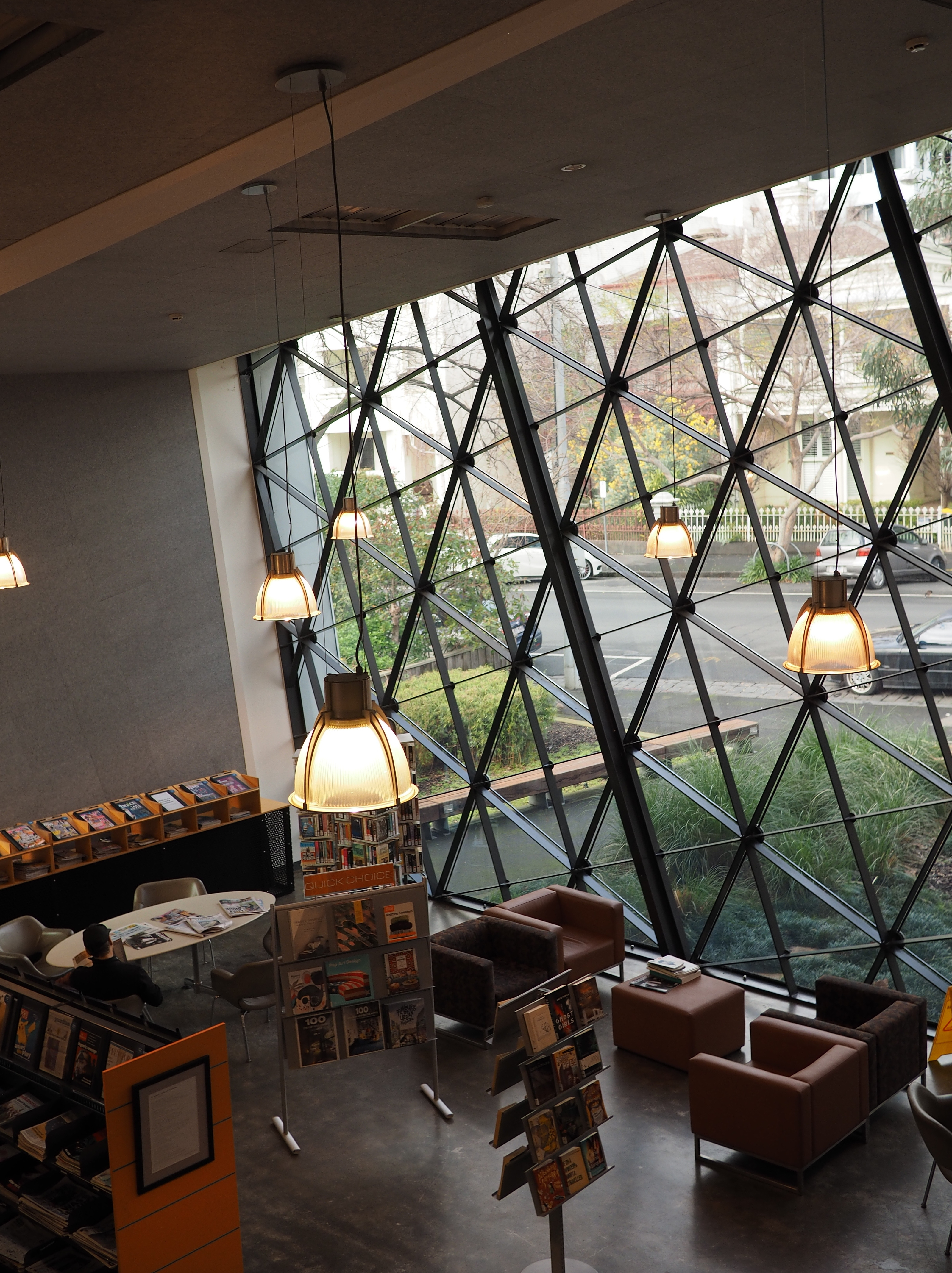 The southern window of East Melbourne Library's main room